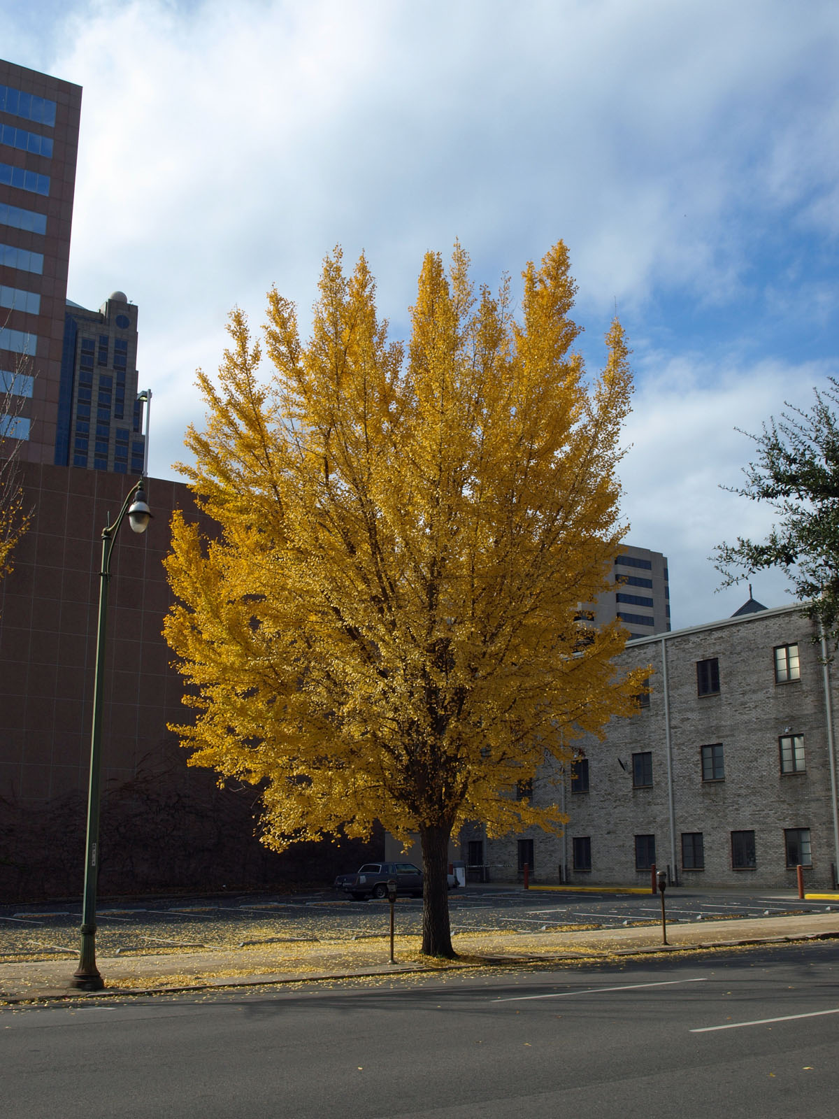 A tree on 21st Street North in Birmingham, Alabama showing its fall colors.